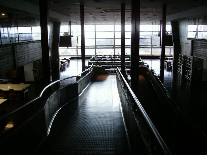 Reading room in the National Library of Argentina.